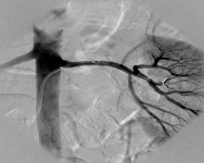 Selective renal angiography (left lower renal artery) after successful percutaneous balloon dilatation of the stenotic lesion.